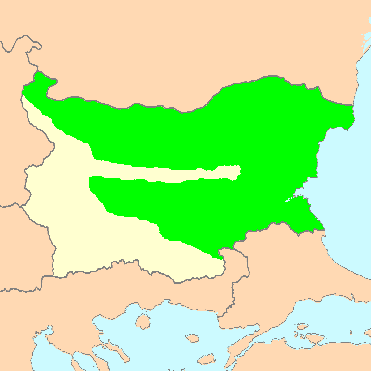 Synthetic Population Bulgarian Milky Sheep areal of distribution